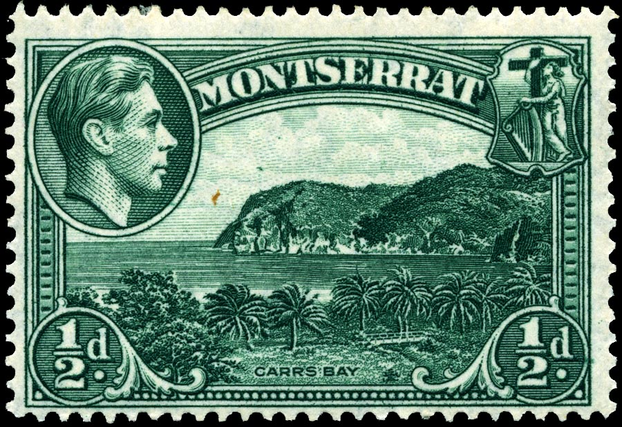 Montserrat half-penny stamp of 1942